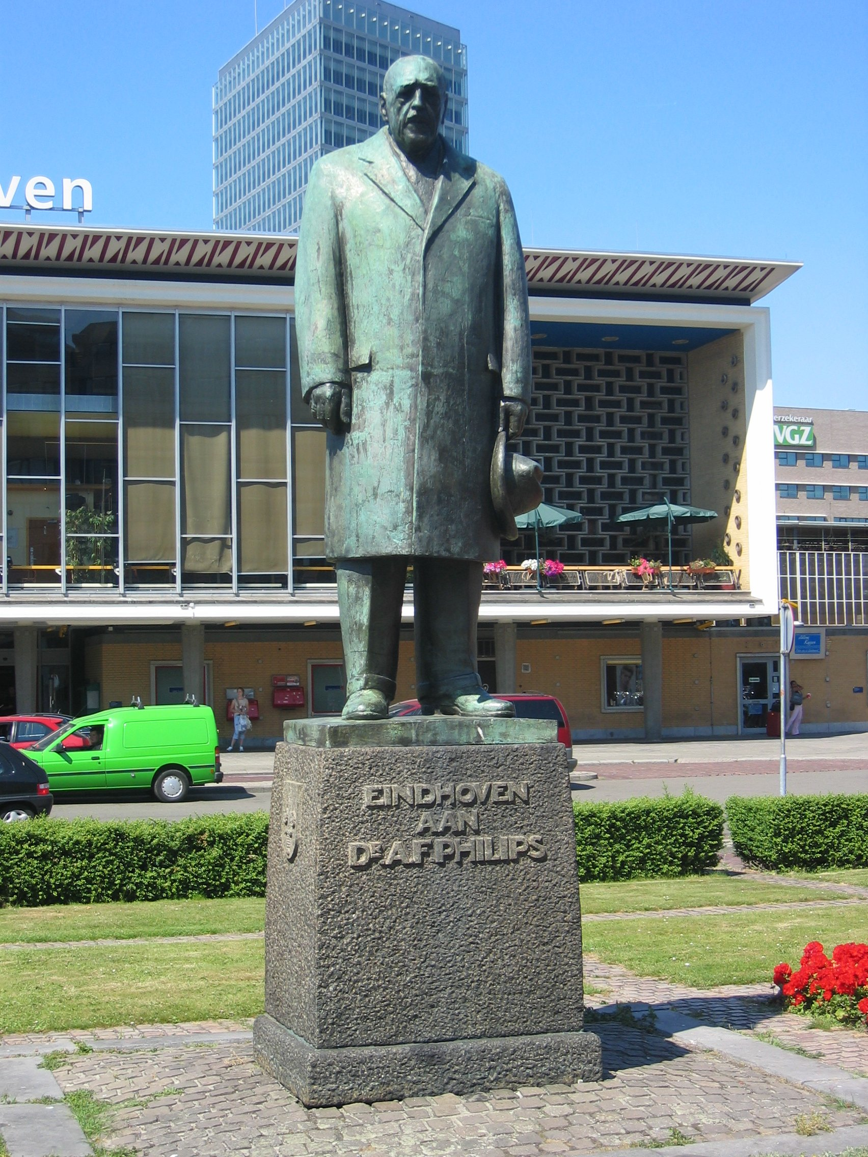 Statue of Anton Frederik Philips by Oswald Wenckebach near Eindhoven Station/The Netherlands